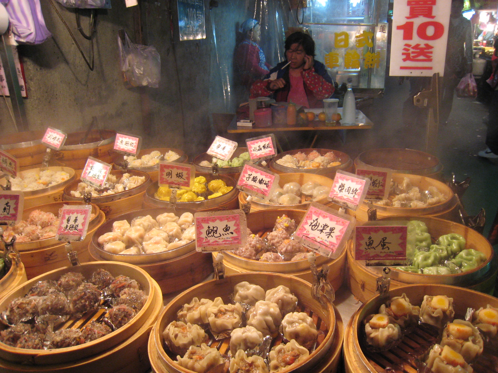 eating dimsum dumplings on the street in gongguan. pictures by tashenka. We'd just seen Music and Lyrics (K歌情人) It was weird.dumpling time